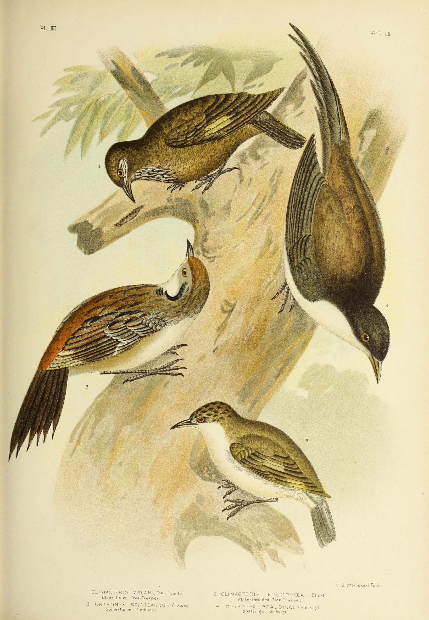 PLATE "V. CLIMACTERIS RUFA .Gould). R UFO US TREE- CREEPER. IF it were not fur the rufous tint pervading all the colouring of this bird, it might easily be mistaken for Climacteris Scandens, to which it bears a great resemblance as regards shape and contour. It is very common in Western Australia, especially in the forests of Eucalypti, upon which trees it seeks for insects, ascending the smooth bark with the greatest ease. It is also, however often to be seen on the ground searching for ants and their larvae. When disturbed it utters a shrill and piercing cry, which sounds most weird and strange in the still and silent forest. During the breeding season it constructs, far down in the hollow of a dead branch, a nest of soft grasses, lined with down, in which three eggs are laid, of a pale salmon-colour, with blotches of reddish-brown thickly distributed over the surface. The male has the crown of the head, all the upper surface and wings, dark brown ; tail, pale brown ; line over the eyes, lores, ear-coverts, throat and under surface of the shoulder, rust- brown ; chest, rufous-brown, each feather with a stripe of buffv-white, bounded on each side with a line of black, down the centre ; the remainder of the under surface deep rust-red, with a line of white down the centre of each feather, this line being lost, however, on the vent and flanks ; irides, dark brown ; bill and feet, blackish-brown. Total length, 6 inches ; bill